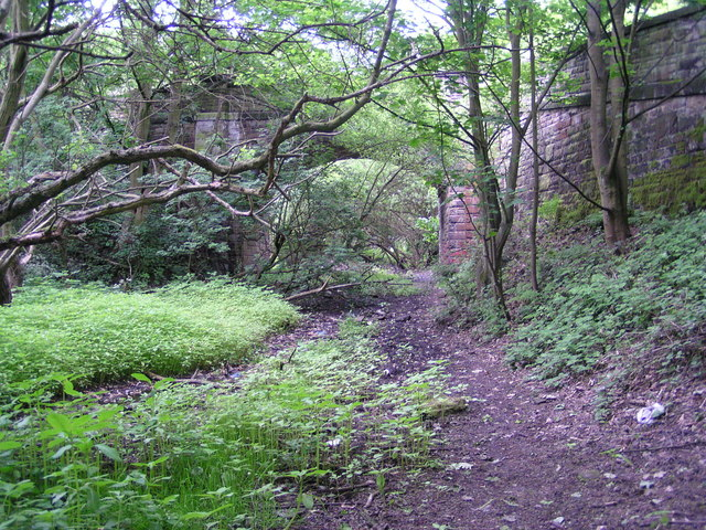 Bridleway crosses Disused Railway Pudsey to Tyersal A substantial stone bridge carries the Bridleway (Leeds Country Way), from Pudsey to Bankhouse Bottom. About 50 yards forward from the bridge is the mouth of the tunnel under Pudsey.